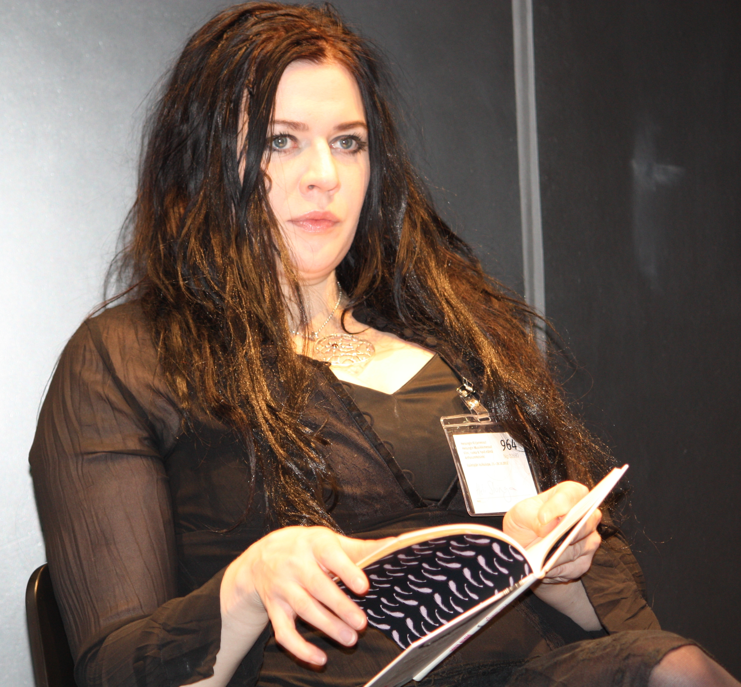 Finnish poet Heli Slunga at Helsinki Book Fair 2012